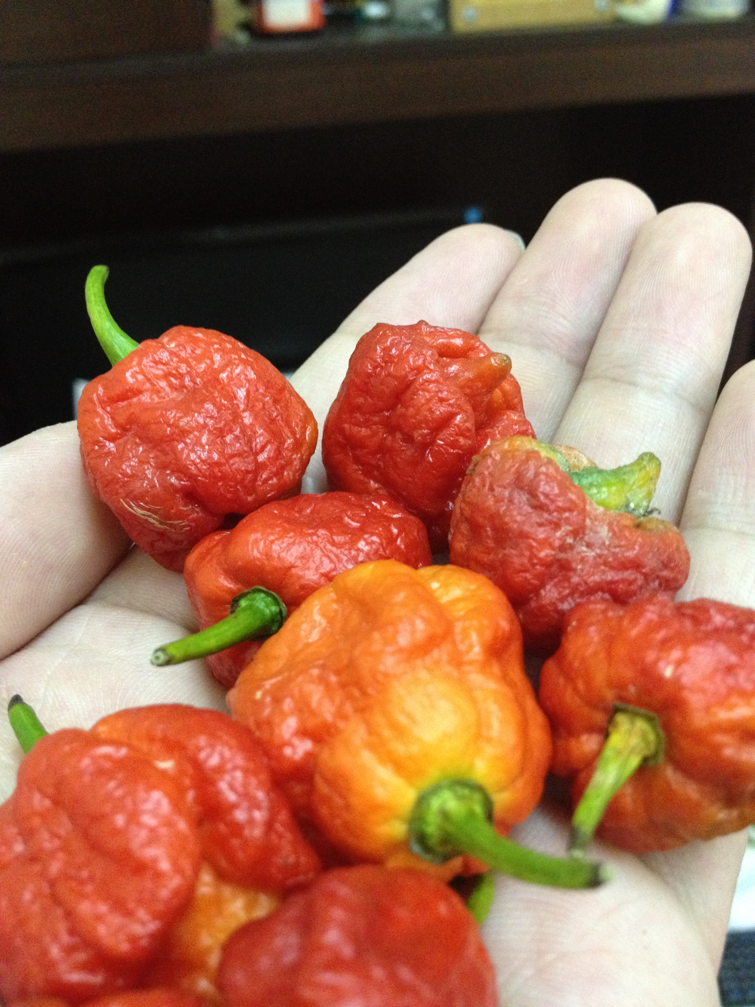 A bunch of picked trinidad scorpion pepper pots in hand